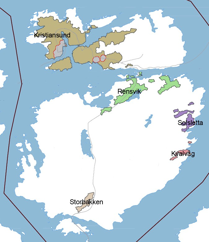 Map of urban areas in Kristiansund in Norway